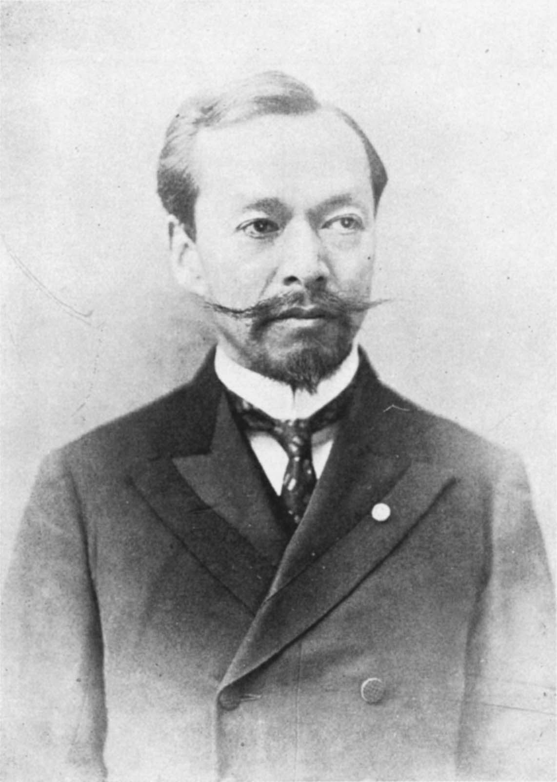 Teiichi Sakata, former principal and current professor of the Tokyo Higher Technical School.